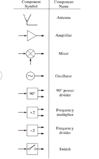 foto 1.1